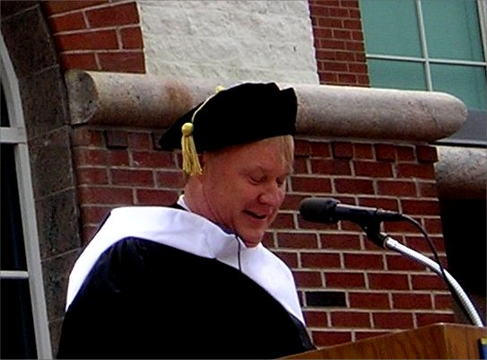 Chris Matthews at Quinnipiac University Commencement 2006